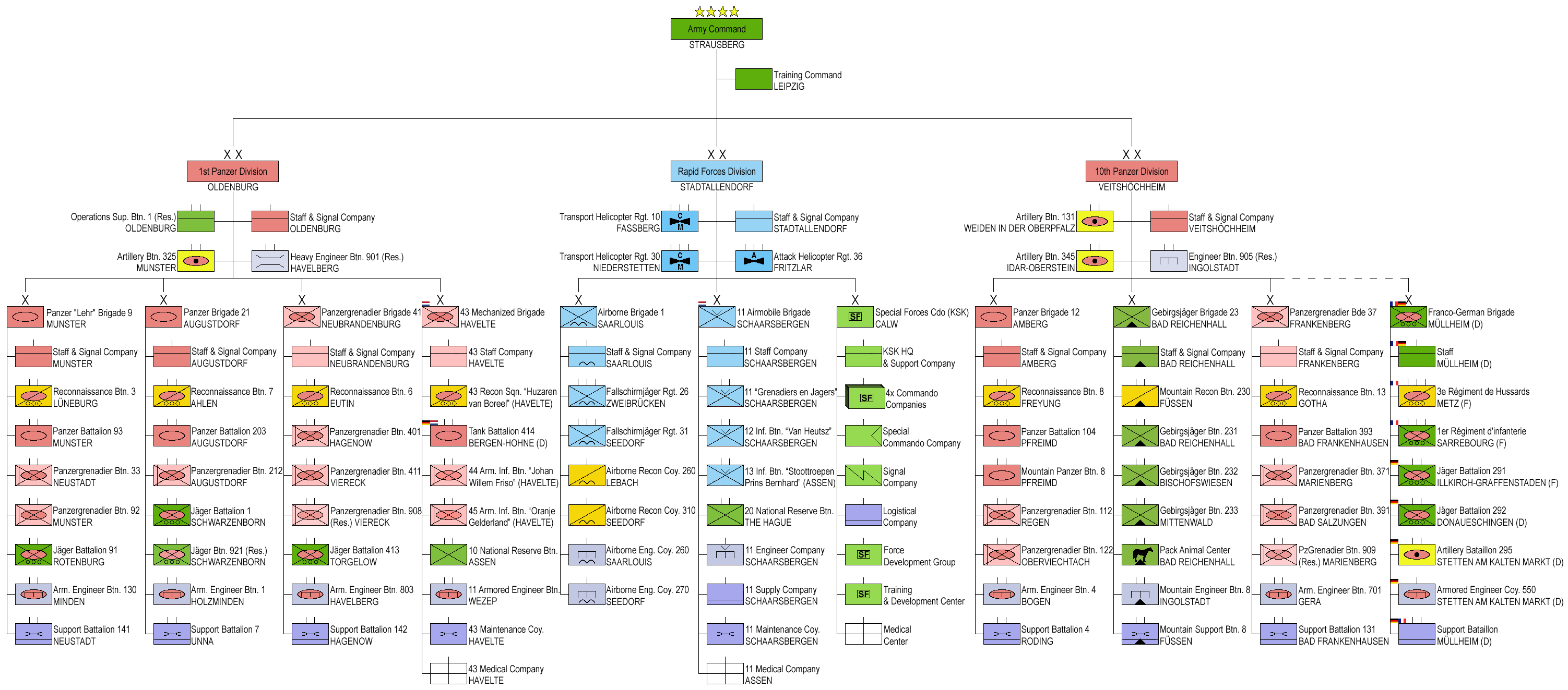 Structure of the German Army in 2017 integrated units of allied nations